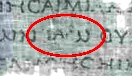 Qumran fragment 4Q120 frg20 with Greek transcription of the Divine Name: IAO